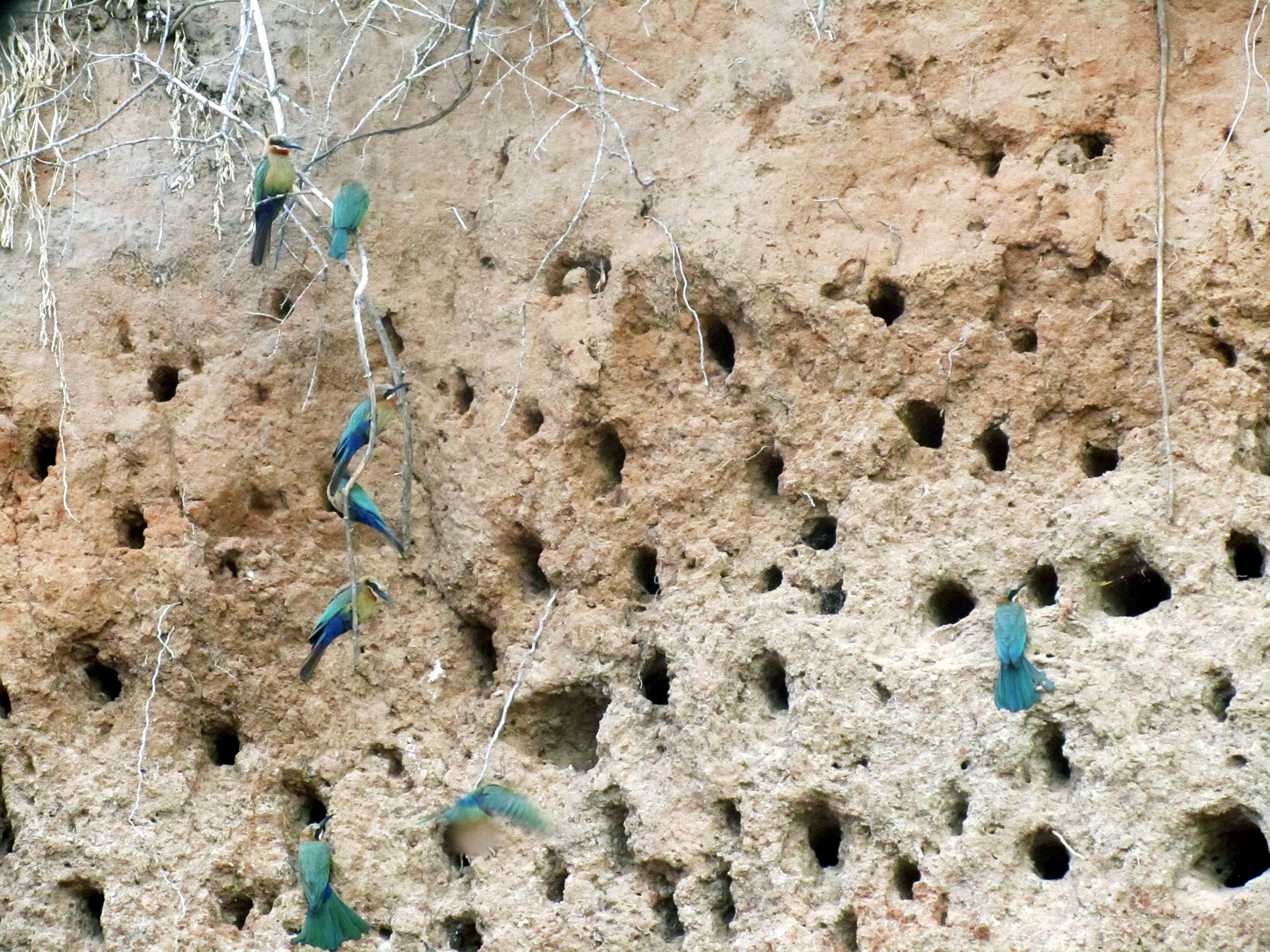 White-fronted Bee-eaters and their nests in Selous Game Reserve, Tanzania.